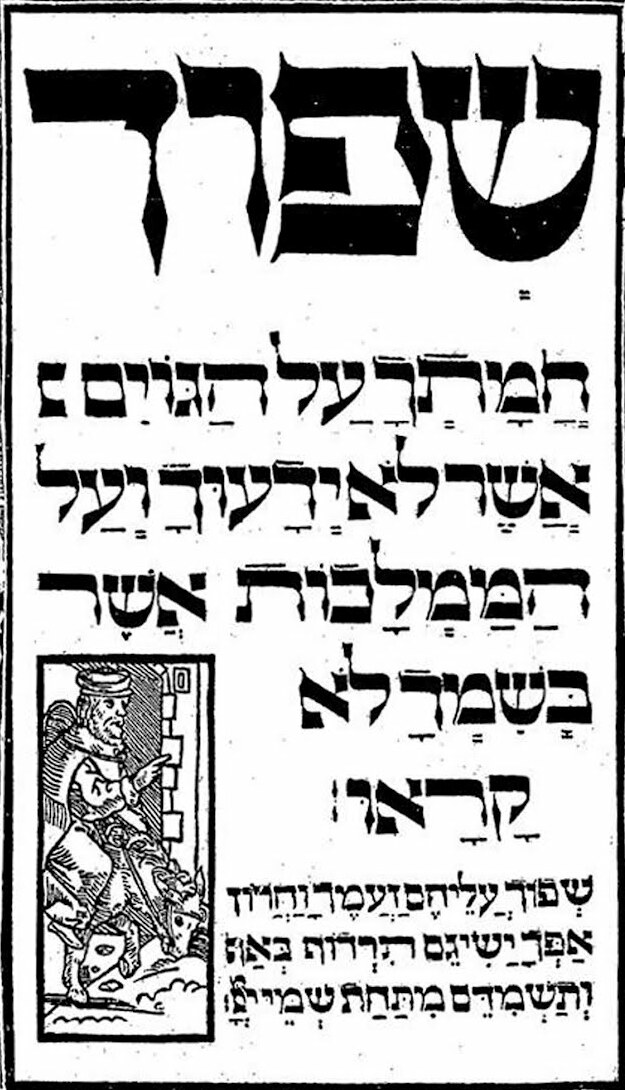 A page from the Haggadah of Pesach printed in Prague, 1527